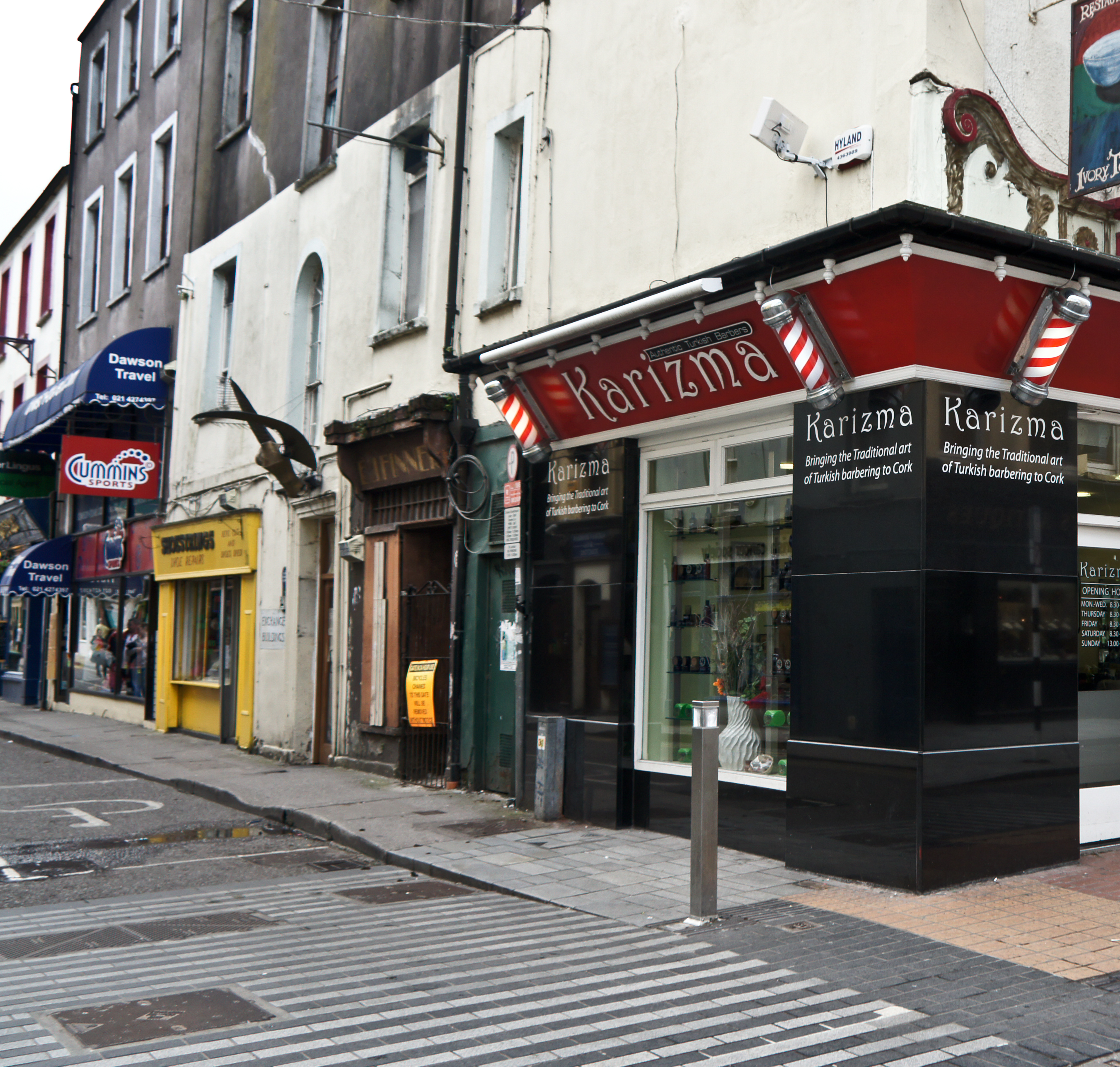 Karizma Barber Shop - Cork (58 Oliver Plunkett Street), Ireland.